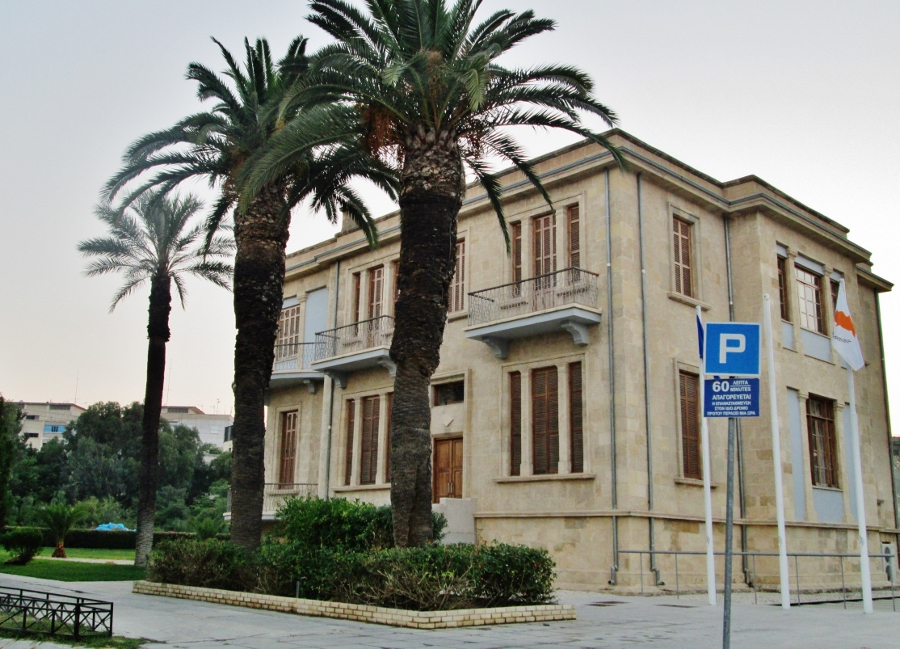 Supreme Court of Justice old square Nicosia Republic of Cyprus Cyprus